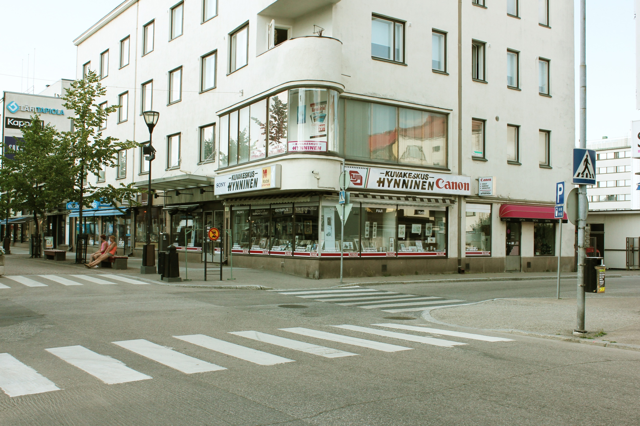 A view to the corner of Kauppakatu and Kirkkokatu in Kajaani.